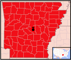 The Catholic Diocese of Little Rock encompasses the entire state of Arkansas